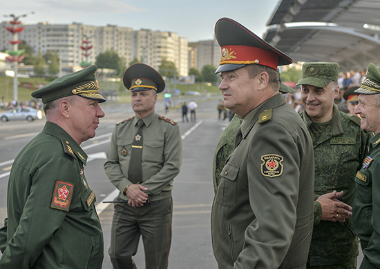 Командующий войсками ЗВО проверил готовность военнослужащих к параду в Минске, посвящённому Дню независимости Белоруссии